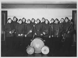 FBC Band since 1948